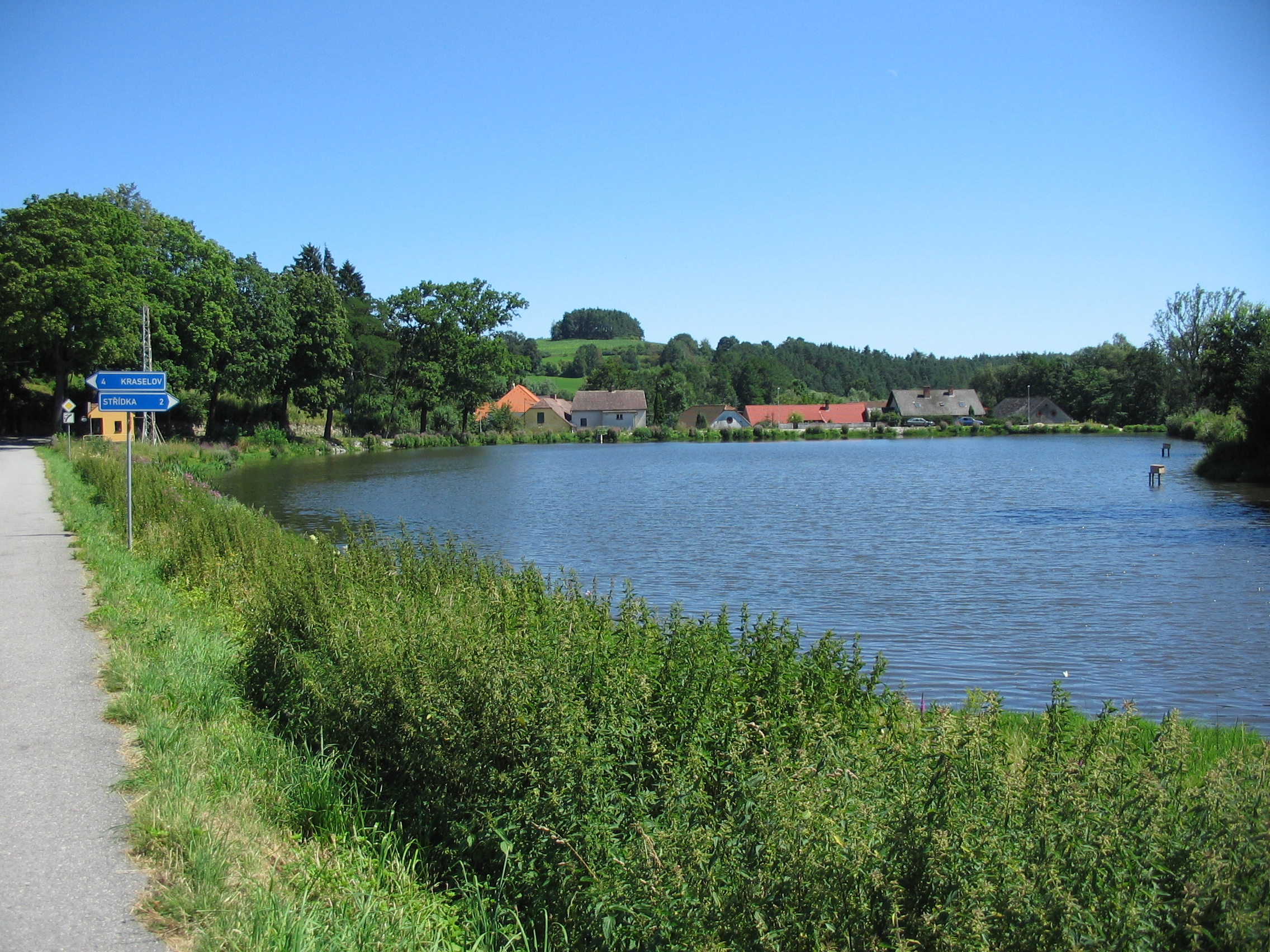 Pond in Němčice, Strakonice District, Czech Republic